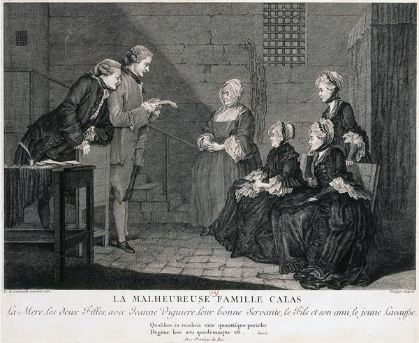 "La malheureuse famille Calas" ("The unfortunate Calas family"). Line engraving by Jean-Baptiste Delafosse (1721-1775) after a painting by Carmontelle.